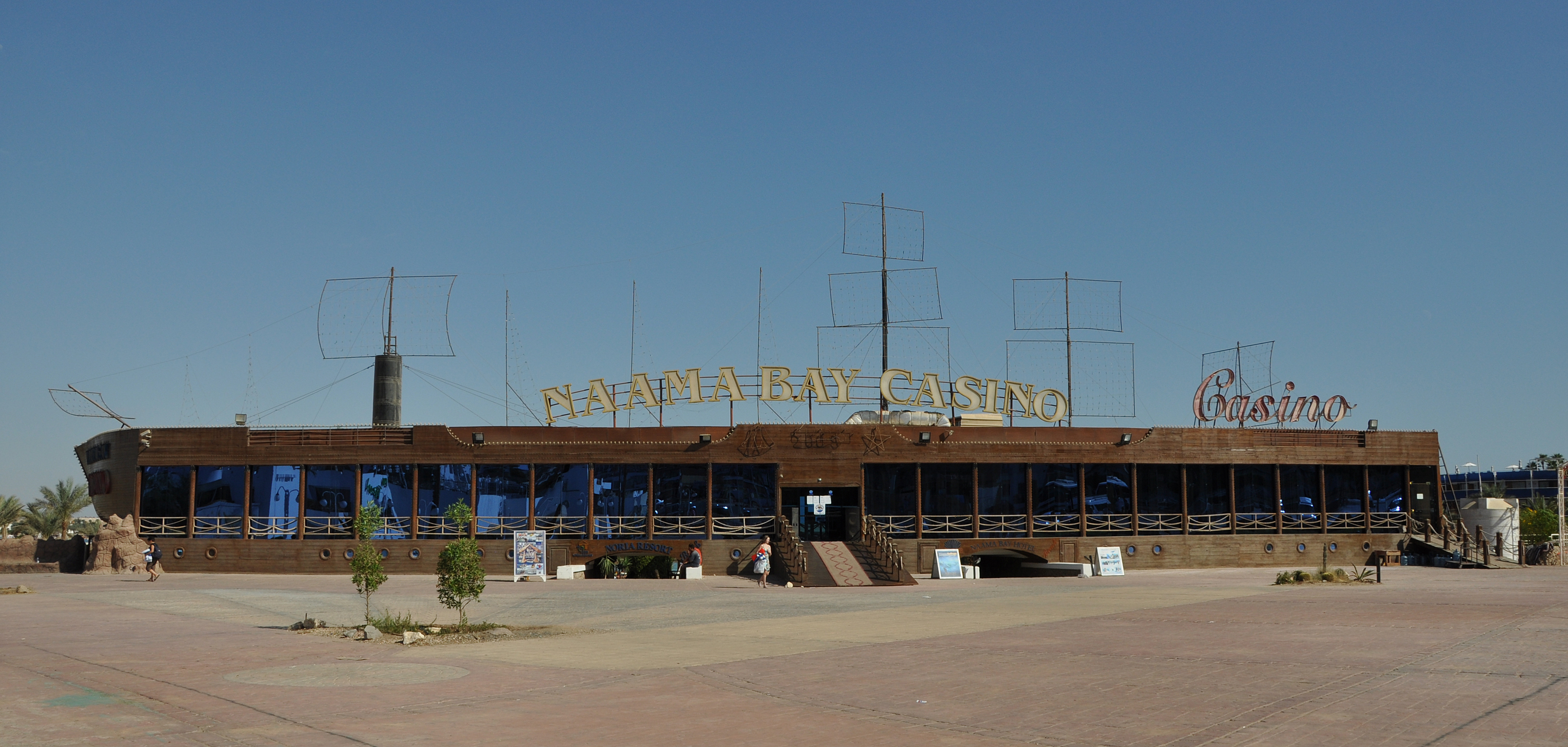 Sharm el-Sheikh (Egypt): Naama Bay Casino